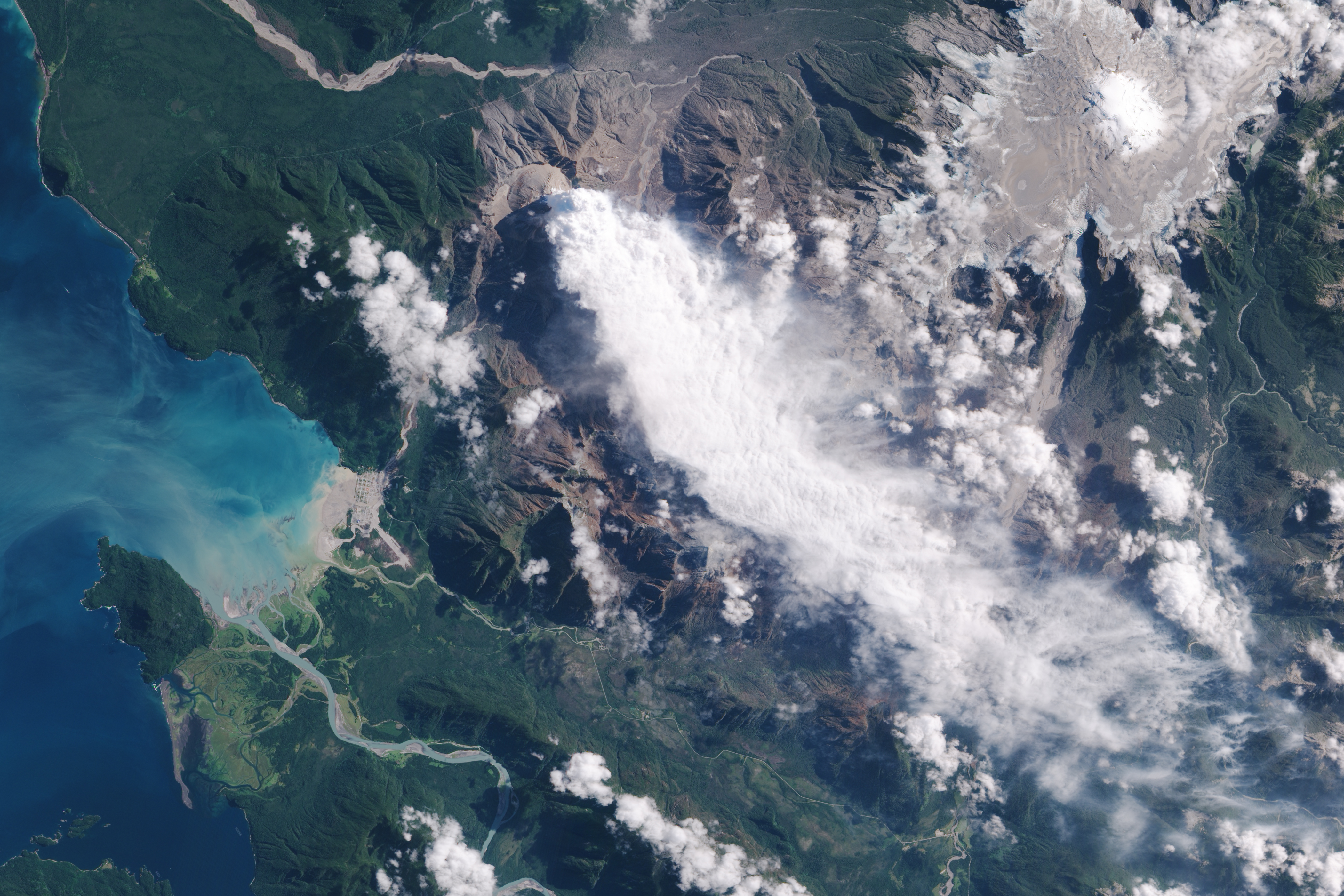 The image shows the volcano and its surroundings in photo-like true color. The Chaitén Volcano is a relatively small, tan mound near the top of the image. A white plume, likely composed of steam and possibly ash, rises from the volcano. Gray-tan ash blankets the snow on the peak of the neighboring Minchinmávida Volcano and the land between the two peaks.